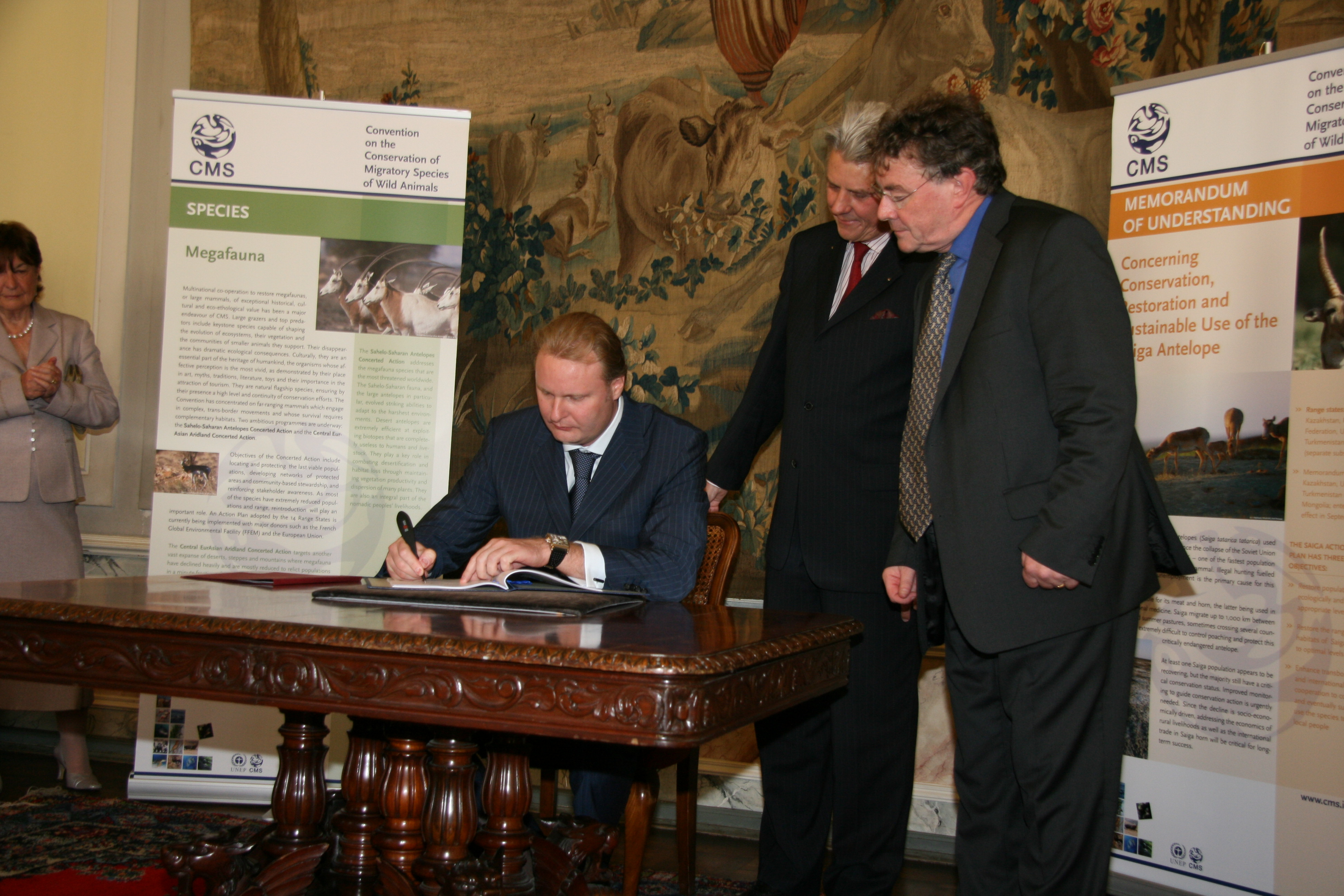 Signing of the Saiga Antelope MoU by the Russian Federation (Alexei Bazhanov, former Vice Minister of Agriculture)